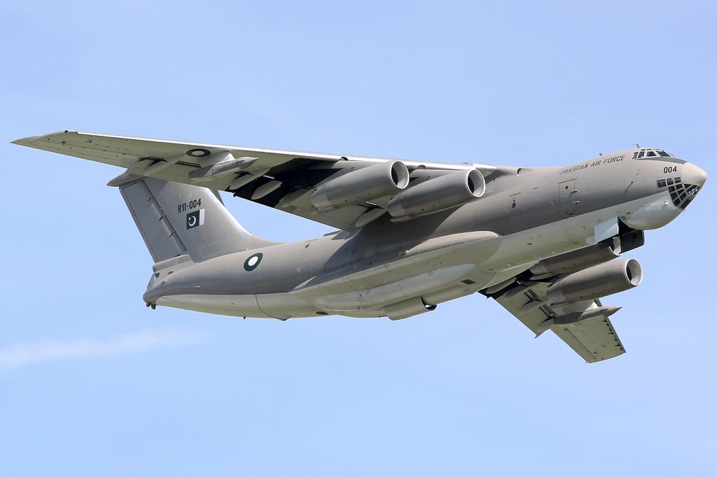 Ilyushin Il-78 (R11-004)